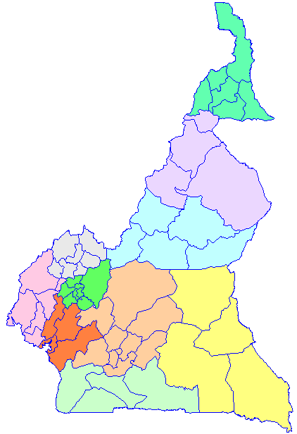 Departements of Cameroon par region